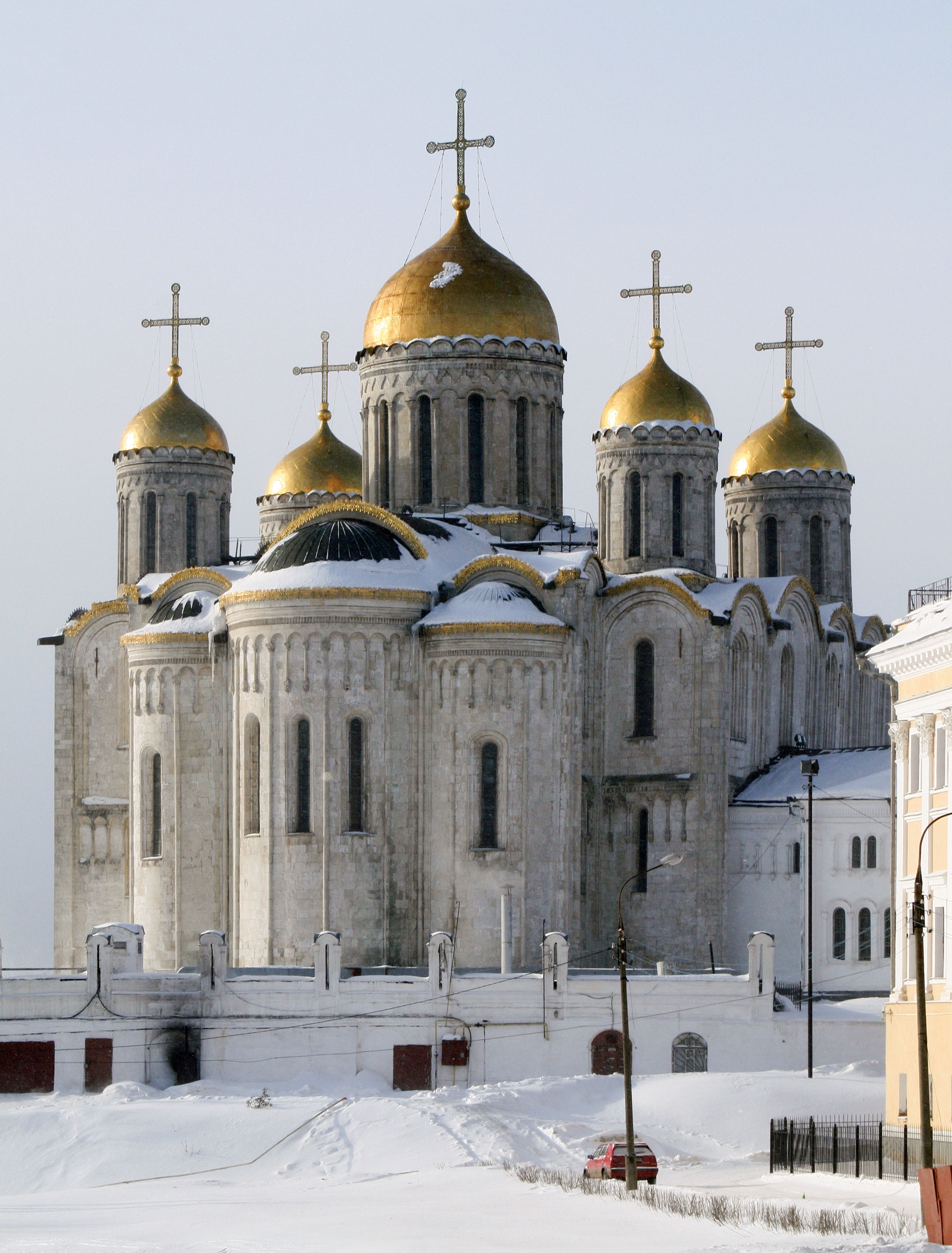 Assumption Cathedral in Vladimir. View of the cathedral in 2008.